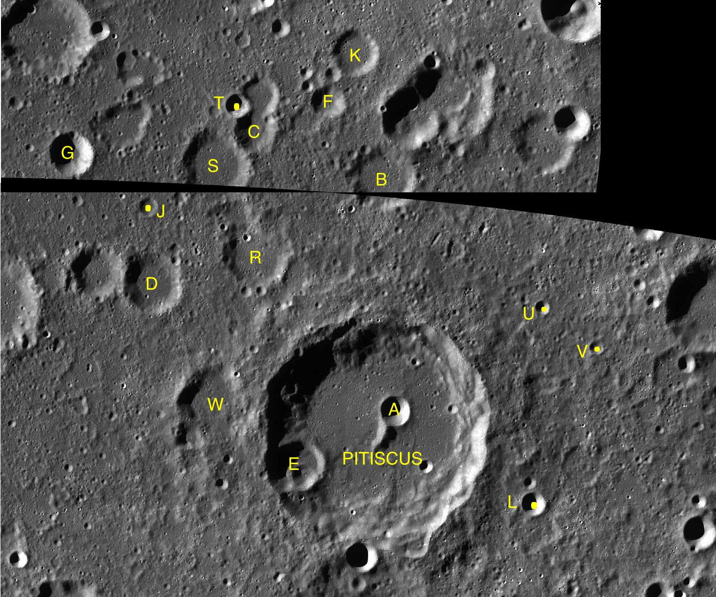 Parts of the charts LAC-113, LAC-127 used for the presentation